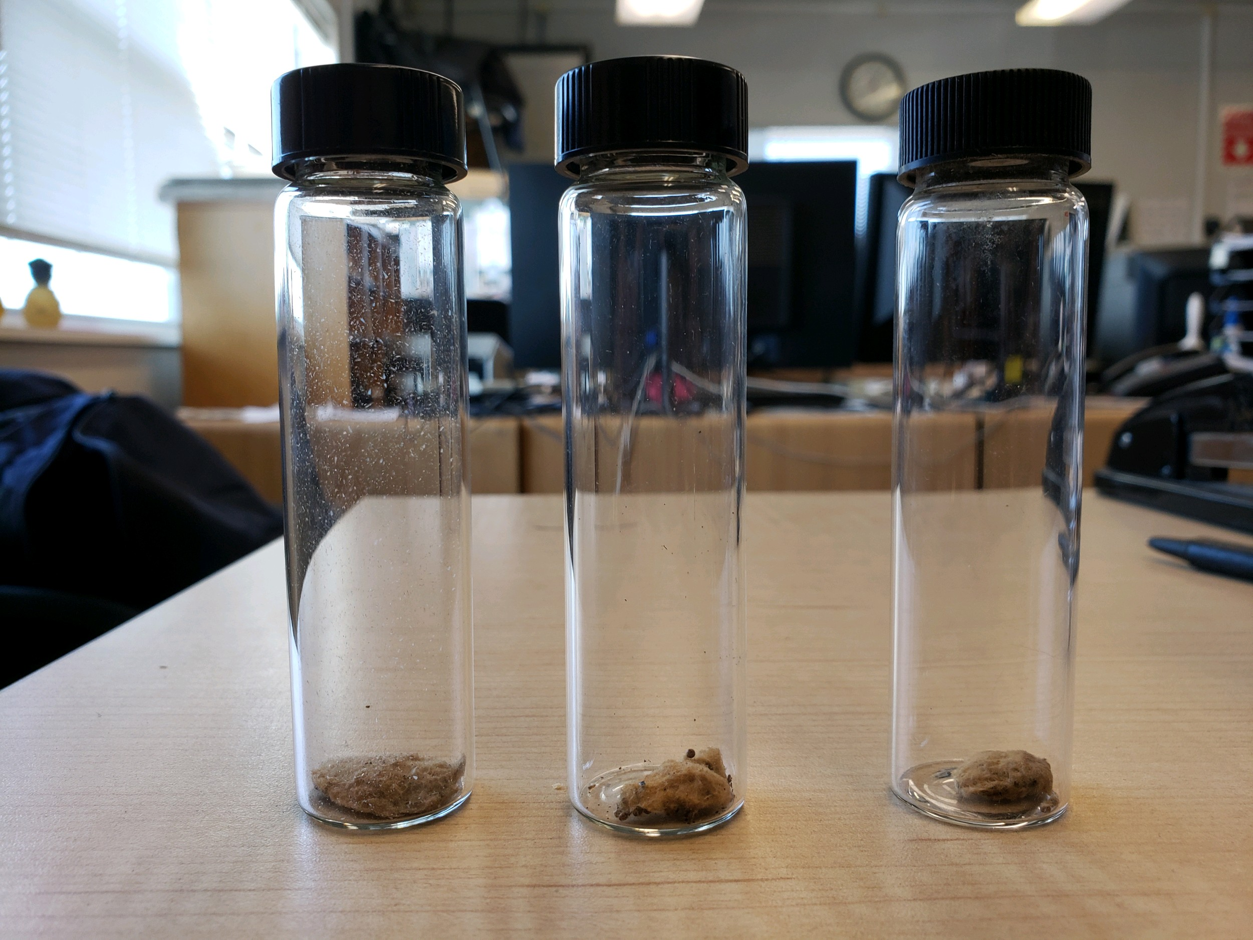 BALTIMORE – According to the U.S. Department of Agriculture (USDA), Asian Gypsy Moths are one of the most destructive insect pests in the world. They are not known to occur in the United States, yet they are knocking on our doorsteps. Three recent U.S. Customs and Border Protection (CBP) interceptions in Baltimore prove how hard CBP agriculture specialists are working to protect against Asian Gypsy Moths establishing here. On July 19, Customs and Border Protection (CBP) agriculture specialists detected three suspected Asian Gypsy Moth (AGM) egg masses on the M/V Liberty Ace. On July 23 and again on July 26, CBP agriculture specialists detected one suspected AGM egg mass each on the M/V Lyra Leader and the M/V Energy Innovator, respectively. CBP submitted all three interceptions to the USDA entomologist who confirmed the egg masses likely be AGM through DNA testing. The M/V Liberty Ace and M/V Lyra Leader are vehicle carriers; the M/V Energy Innovator is a liquefied natural gas (LNG) tanker. All three made port calls in Japan, a high-risk AGM area, during June 2019. CBP agriculture specialists removed the egg masses and treated the affected area. “Alert Customs and Border Protection agriculture specialists detected and quickly mitigated a potentially serious threat posed by the highly invasive and destructive Asian Gypsy Moth,” said Casey Durst, CBP’s Director of the Baltimore Field Office. “CBP agriculture specialists continue to protect our nation’s agriculture and our economy through extraordinary vigilance and stringent inspections of merchant vessels and their cargo arriving into Baltimore.” Photo provided by: U.S. Customs and Border Protection